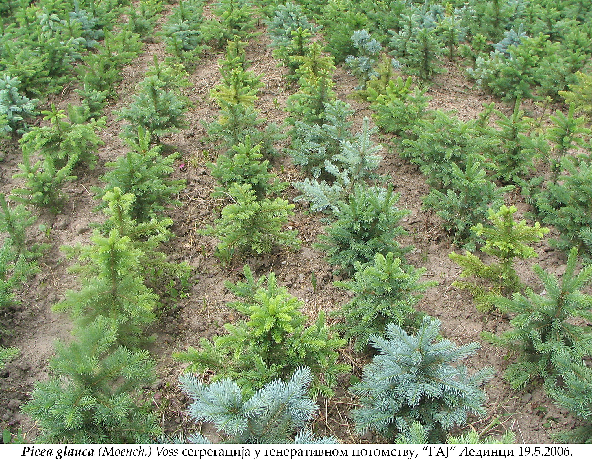 Picea pungens Glauca segregation in F1Gaj nursery, Ledinci (Serbia)